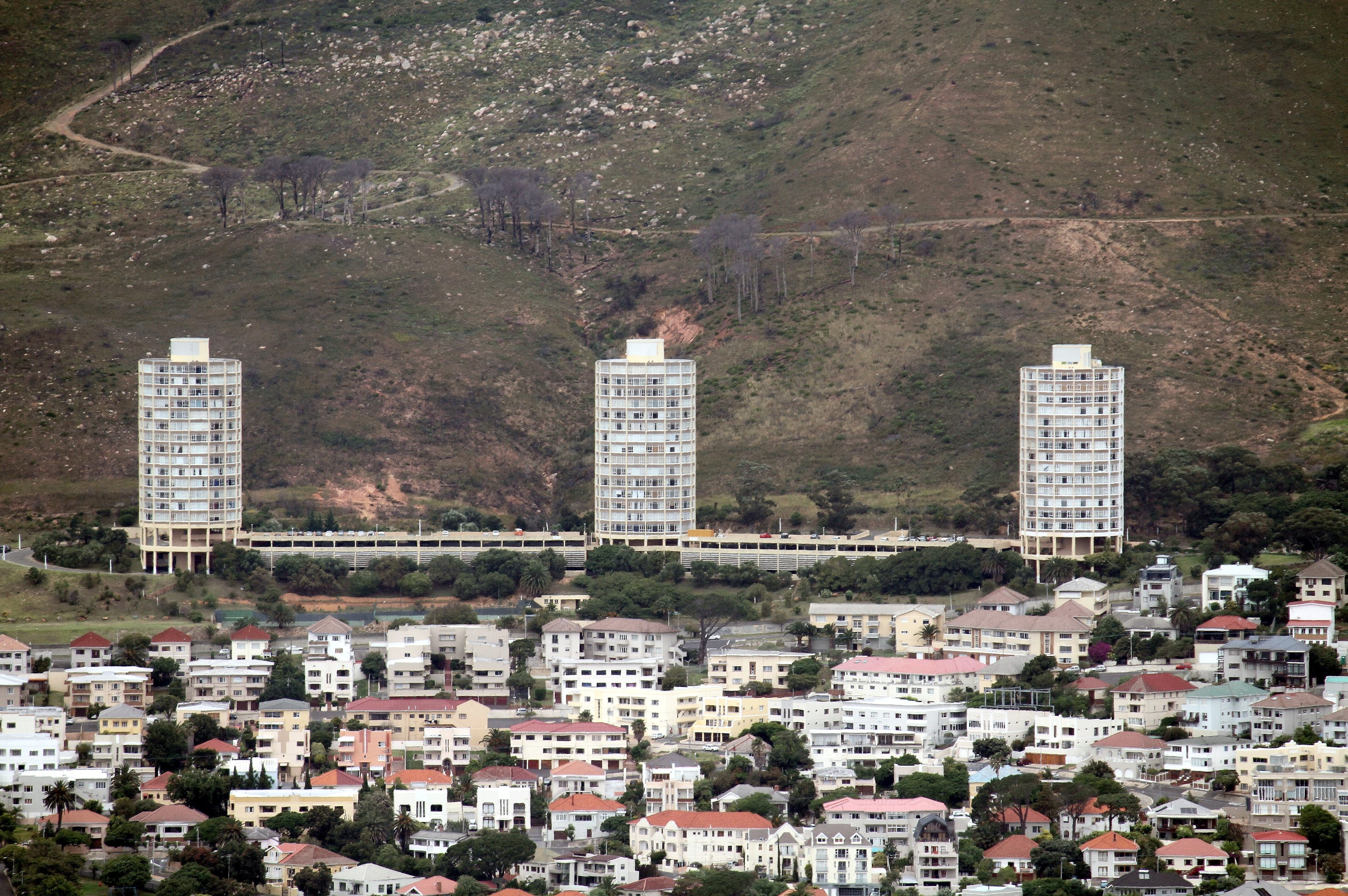 Disa Park in Vredehoek photographed from Signal Hill, Cape Town, South Africa